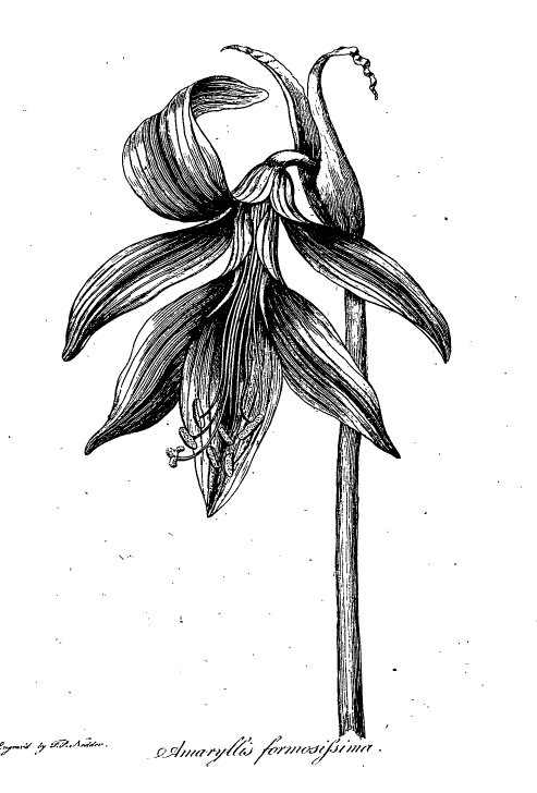 Illustration of the Amaryllis by William Blake for Erasmus Darwin's The Botanic Garden, now known as Sprekelia formosana.